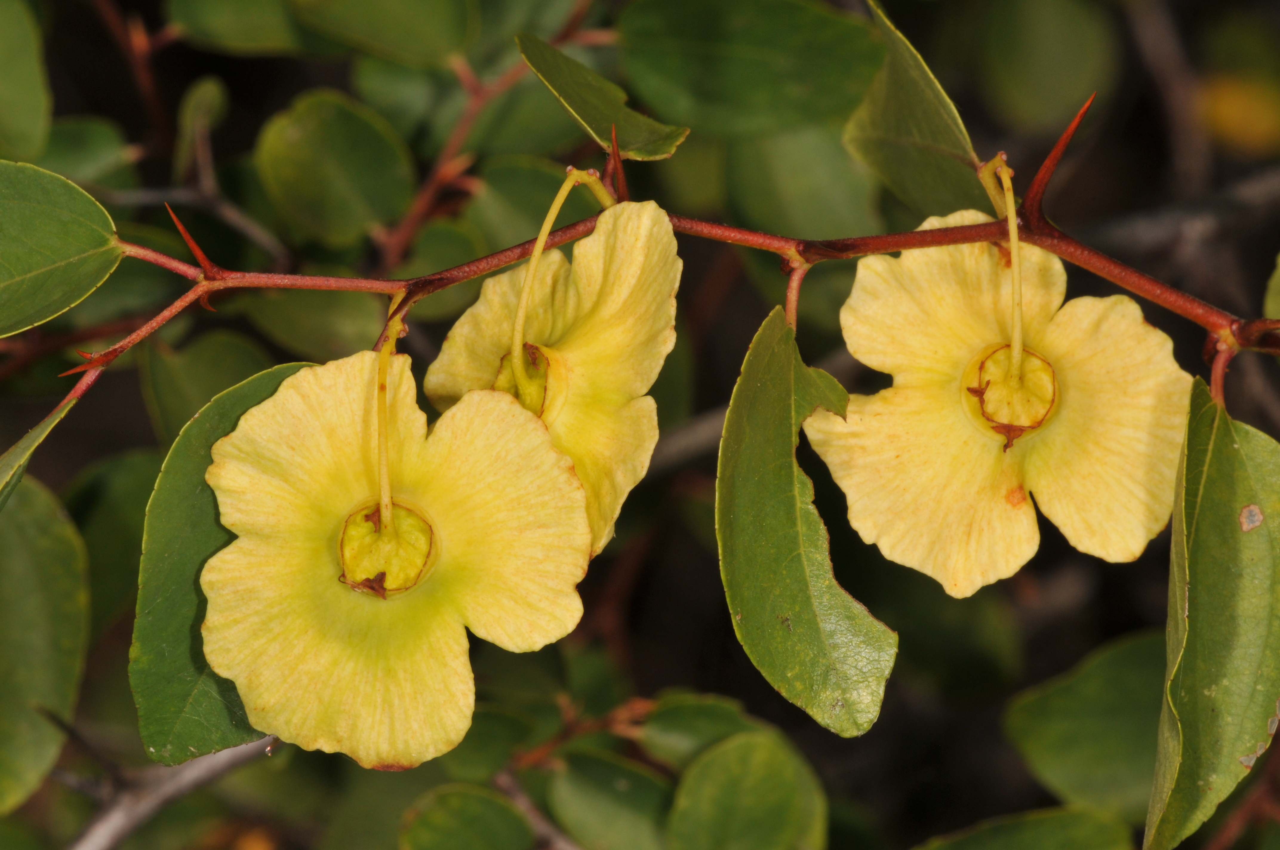 Paliurus spina-christi, Croatia, Istria, Brseč 15 km south Lovran, 45°10`23,80``N 14°13`37,25``E